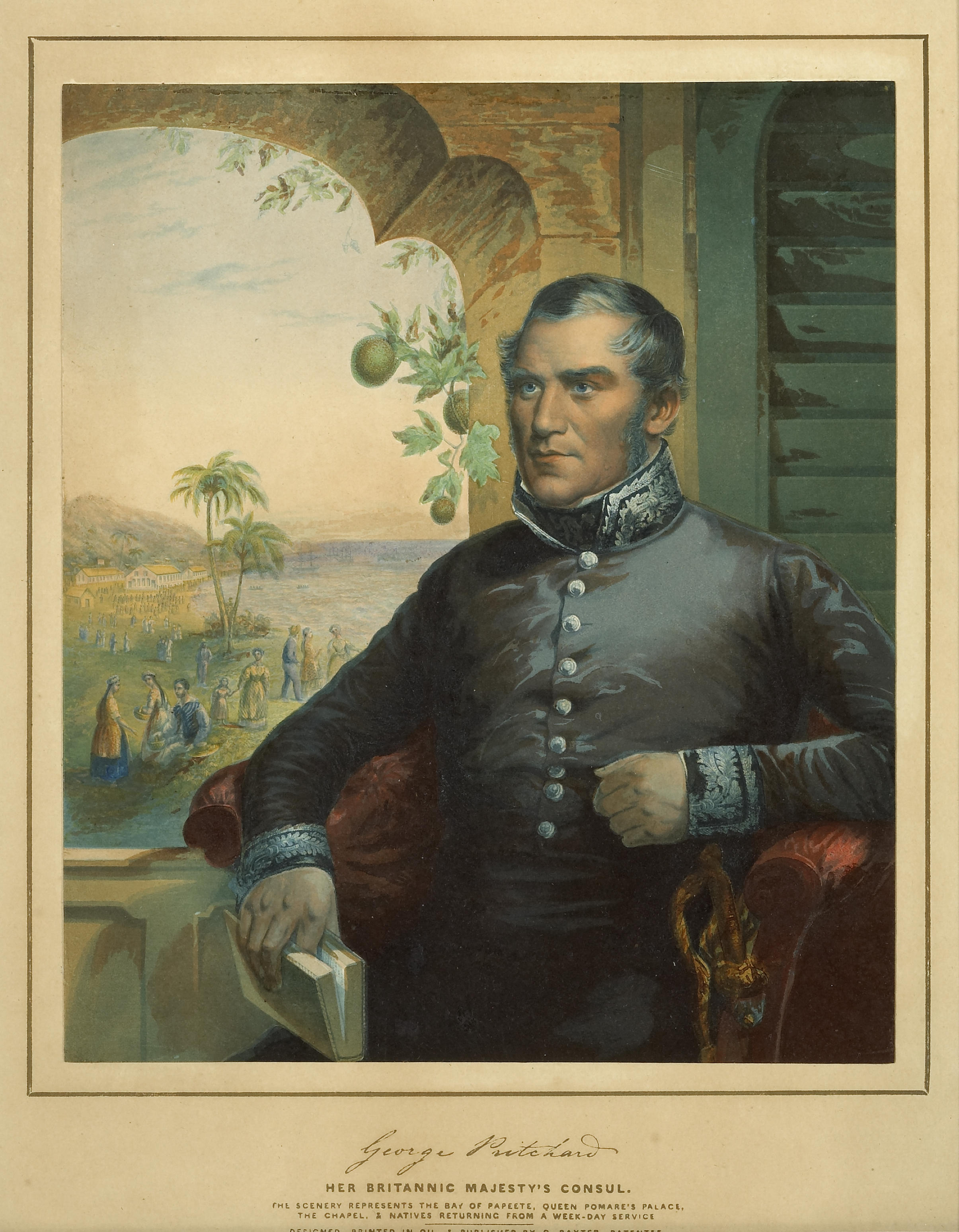 A portrait of George Pritchard (1 August 1796 – 6 May 1883), a British Christian missionary and diplomatist. The background scenery shows the bay of Papeete, Tahiti, French Polynesia, and the palace of Queen Pōmare IV (28 February 1813 – 17 September 1877).